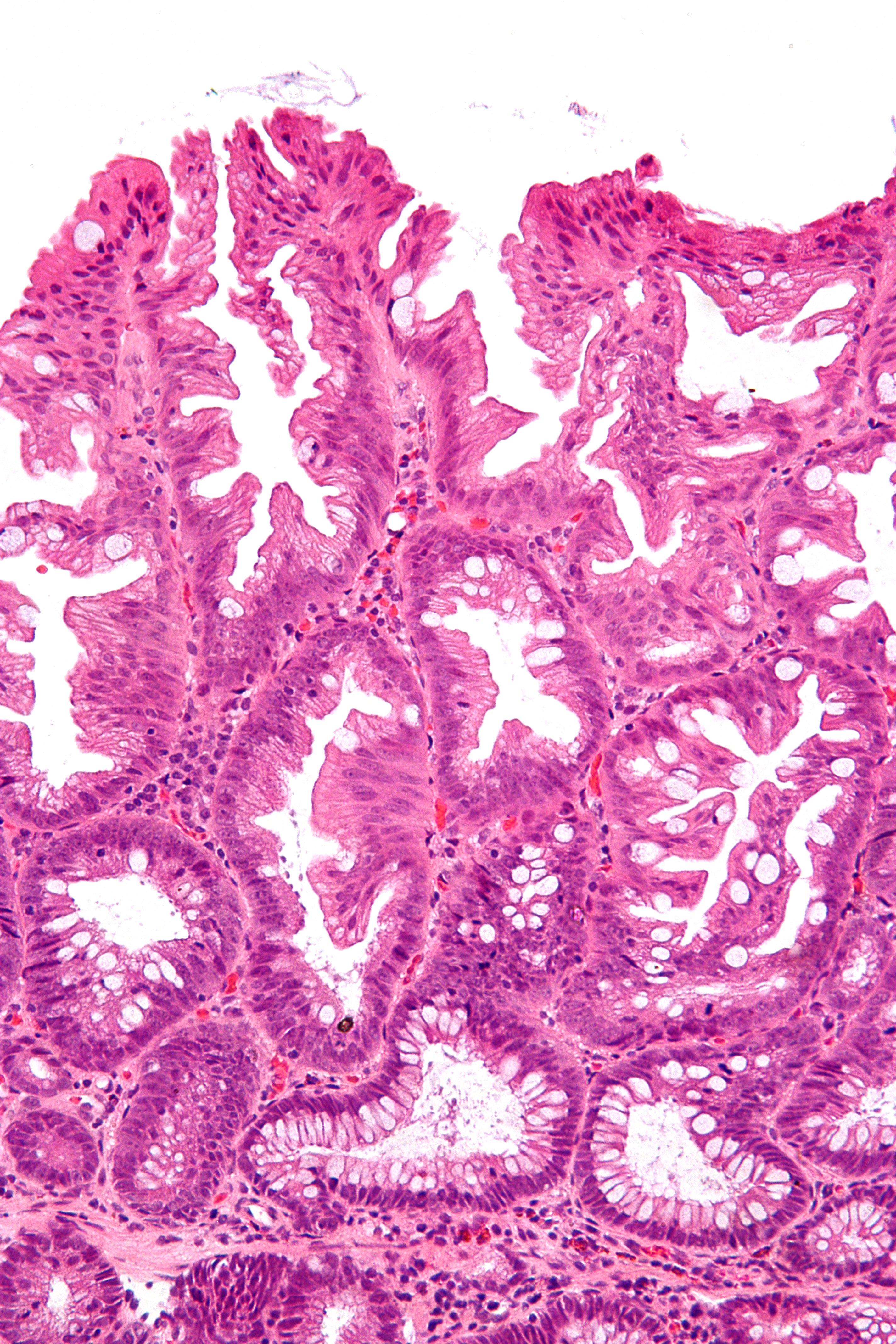 Very high magnification micrograph of a sessile serrated adenoma, abbreviated SSA, from the cecum removed during a colonoscopy. H&E stain. SSAs are characterized by: basal dilation of the crypts, basal crypt serration, crypts that run horizontal to the basement membrane (horizontal crypts), and crypt branching. Unlike traditional colonic adenomas (e.g. tubular adenoma, villous adenoma), they do not typically have nuclear changes (nuclear hyperchromatism, nuclear crowding, elliptical/cigar-shaped nuclei). SSAs are considered pre-malignant lesions, i.e. precursors to cancer, and tend to be found in the right colon. Related images Low mag. Intermed. mag. High mag. Very high mag. Low mag. Intermed. mag. High mag.